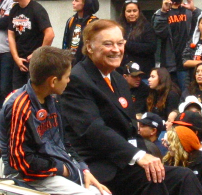 Former Mayor of San Francisco Frank Jordan, pictured in 2012 at the San Francisco Giants 2012 Victory Parade